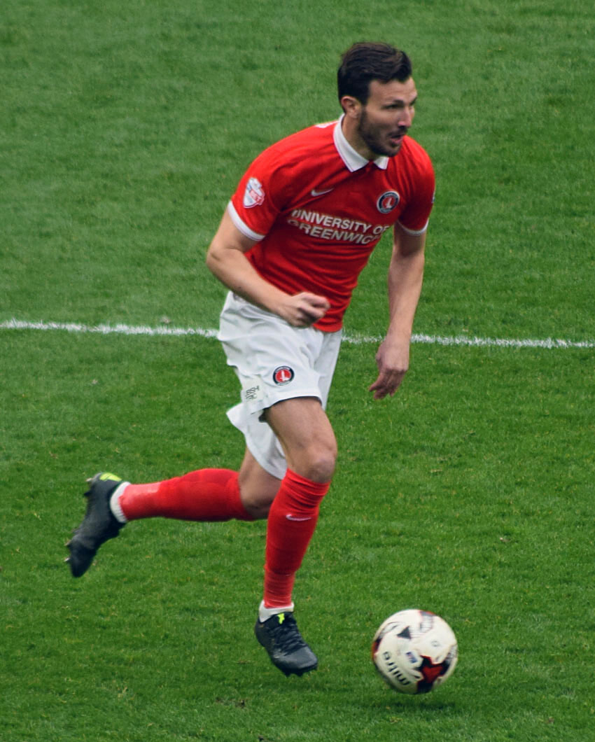 Italian defender (right back) Marco Motta in action for Charlton Athletic FC in 2015-16 season.